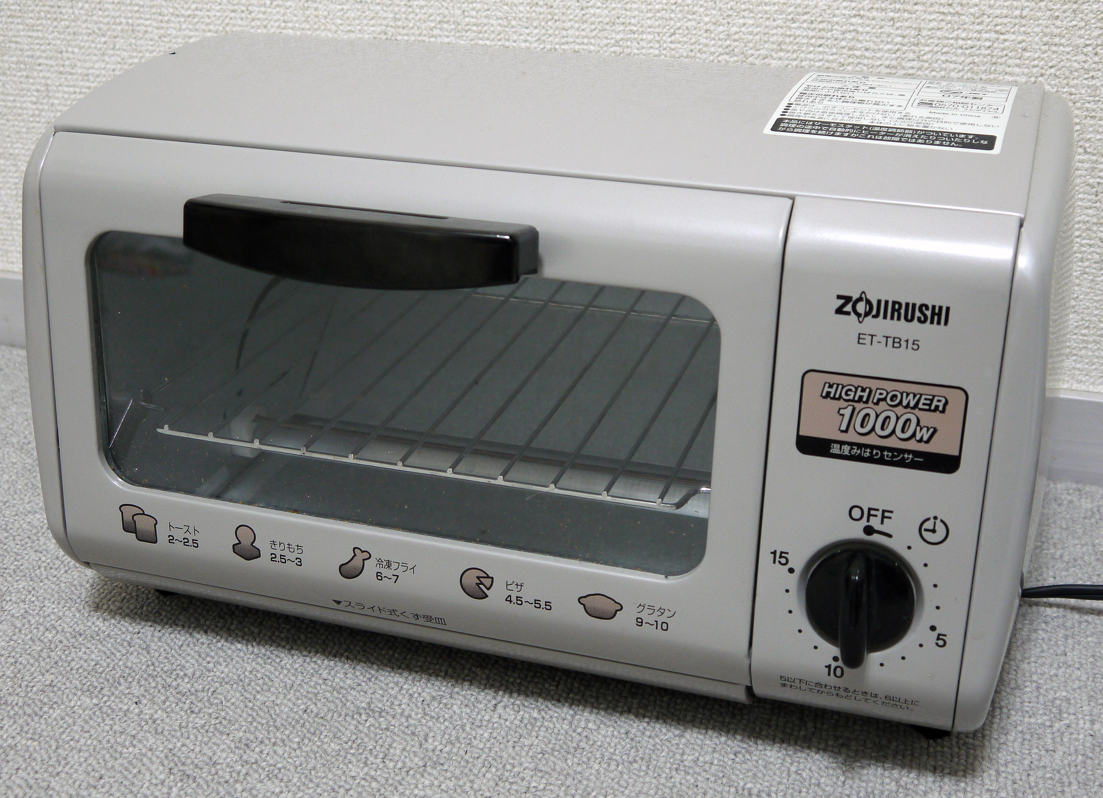 Zojirushi toaster oven ET-TB15